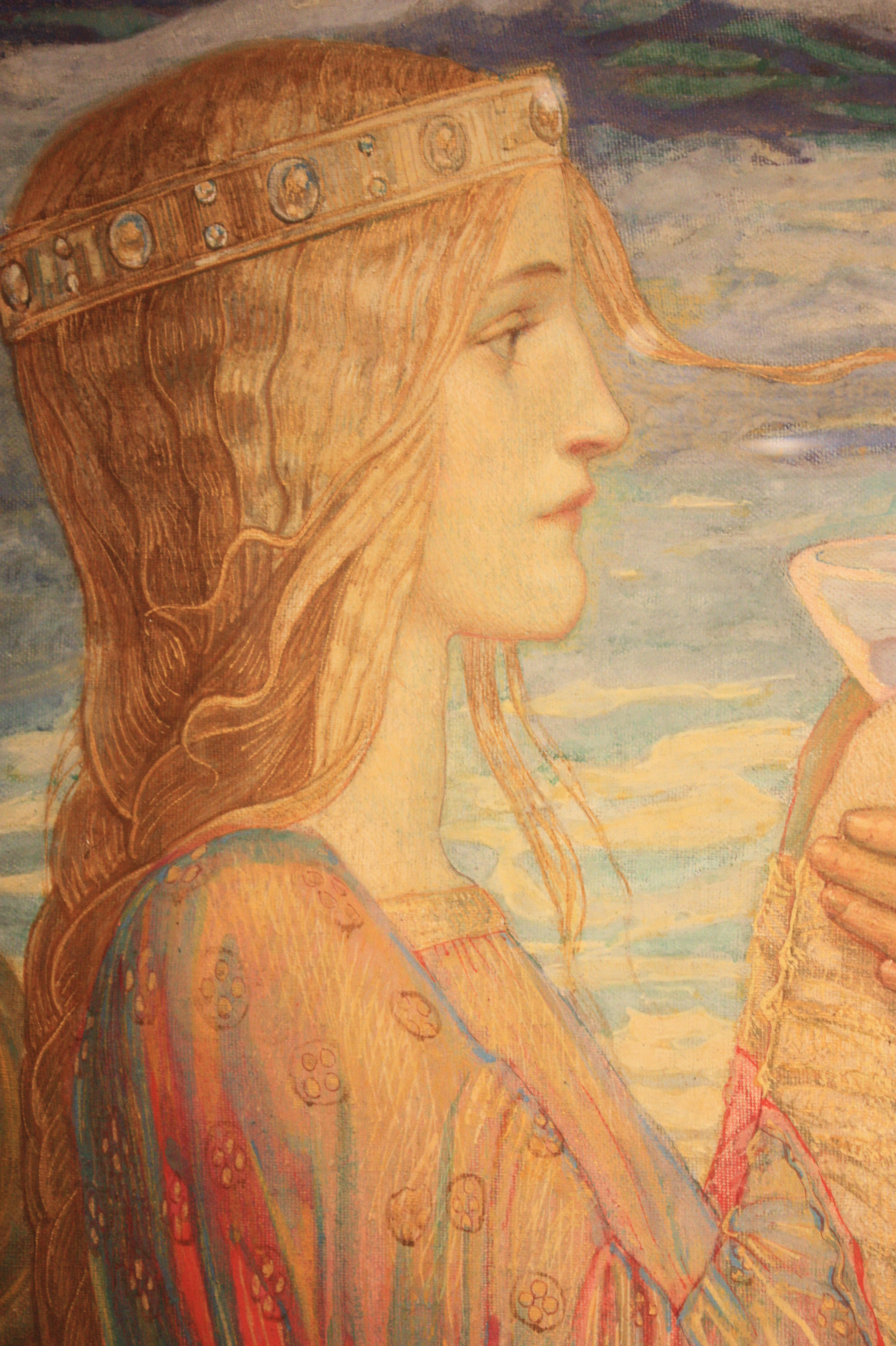 Isolde (detail from "Tristan and Isolde") by John Duncan, 1912